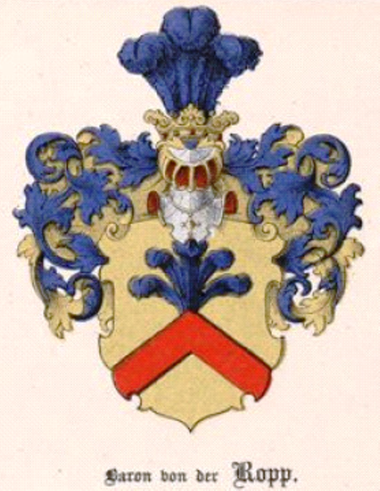 Coat of arms of Baron von Ropp family